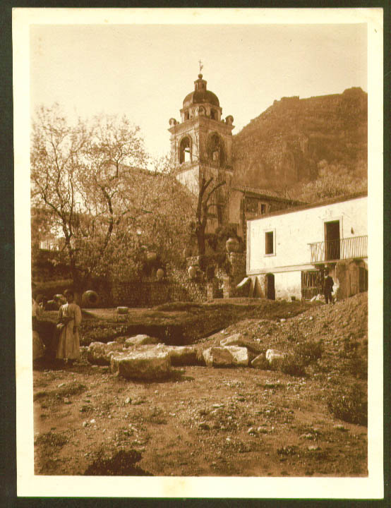 Wilhelm von Gloeden (1856-1931), Building of Villa San Giorgio, in 1907, beneath the church of San Pancrazio in Taormina. On the back someone scribbled: "Route Can.....". Dated 8 September 1912. Photograph number: 2643.